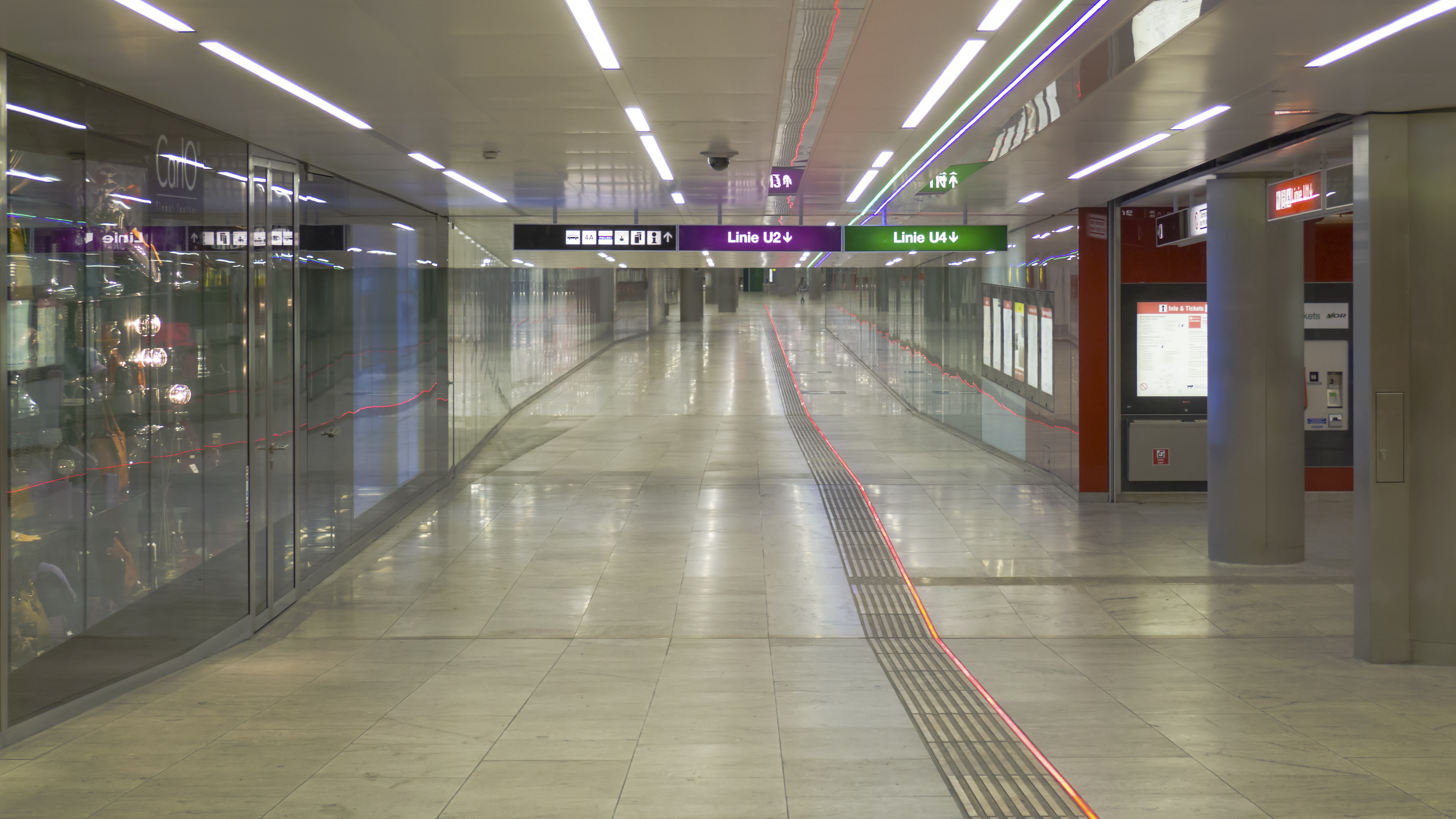 Opernpassage in Vienna 1